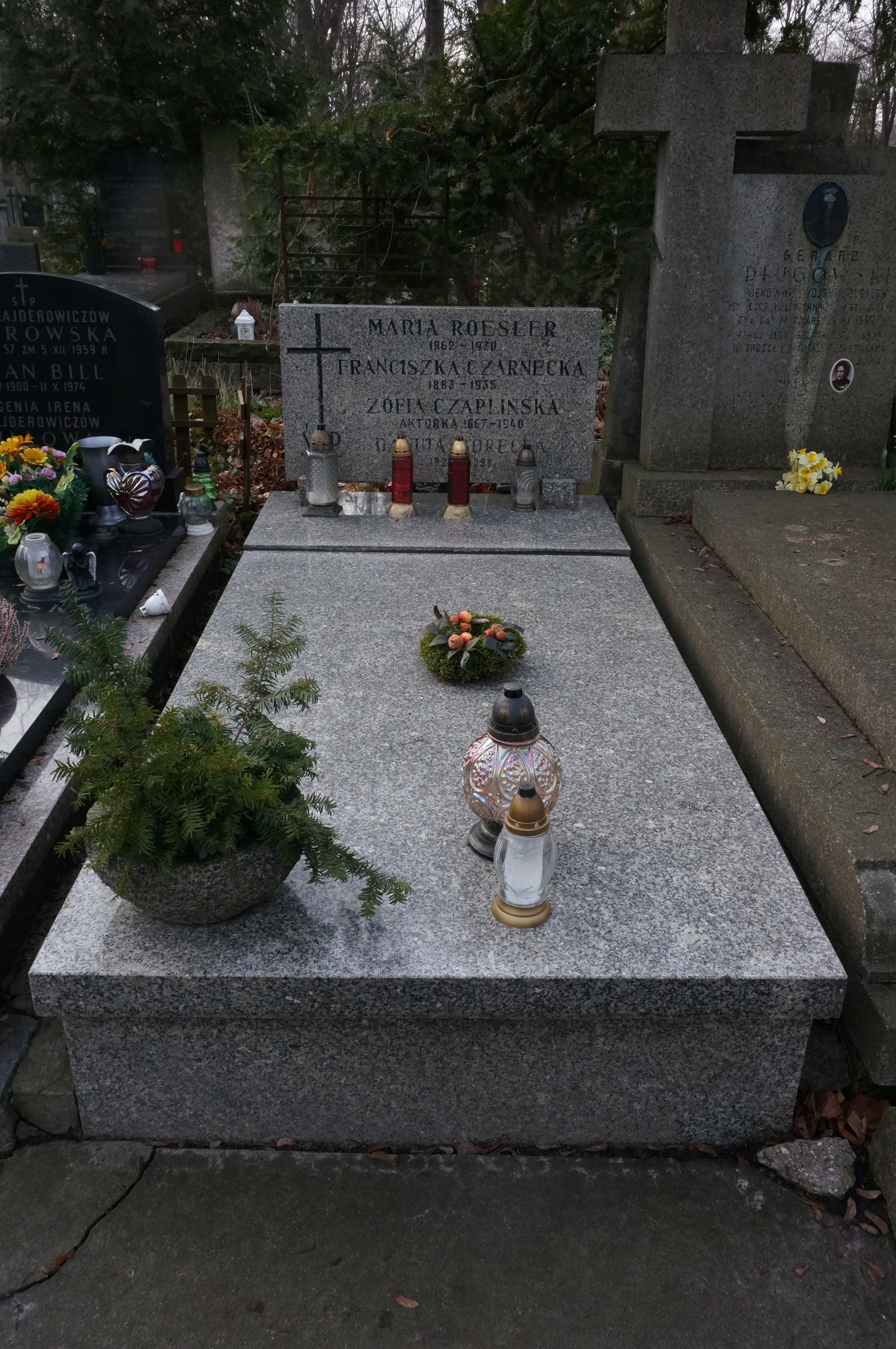 The grave of Zofia Czaplińska at the Powązki Cemetery (section 247, row 3, grave 9)